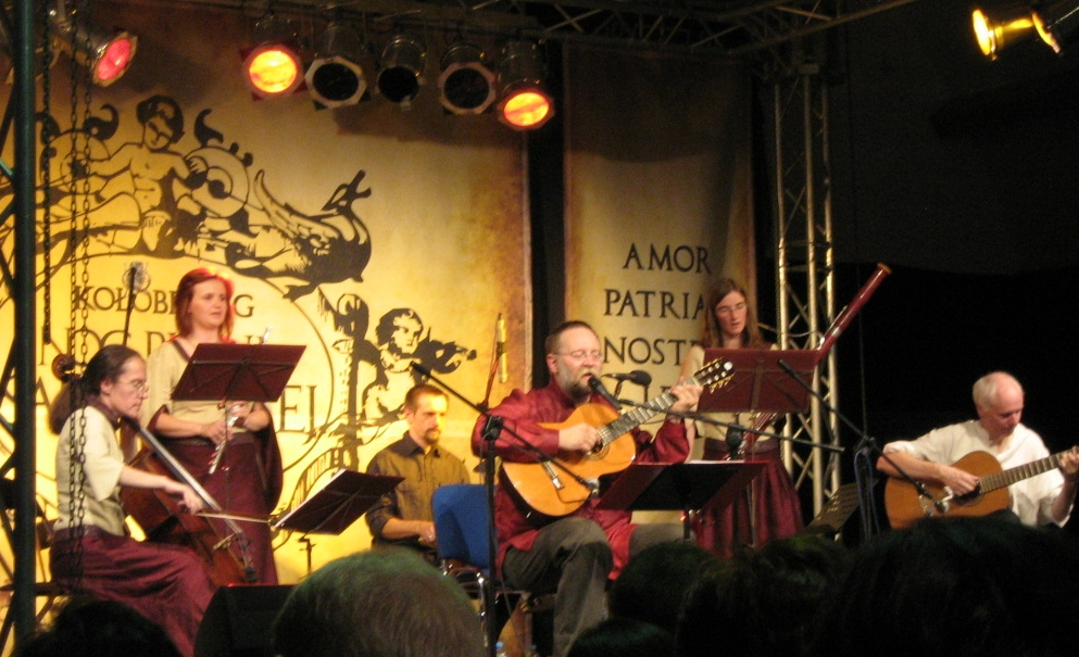 Jacek Kowalski with a band. Kołobrzeg, Poland. 2010.